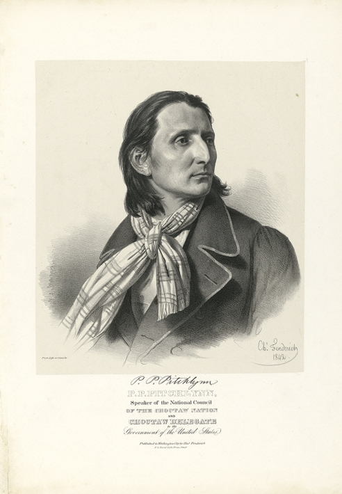 Peter Perkins Pitchlynn (1806-1881), Choctaw chief, Duval Lithography Company, 1842; National Portrait Gallery